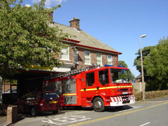 Whiston Fire Station